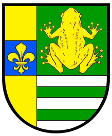 Coat of amrs of Šabina municipality, Sokolov District, Czech Republic.